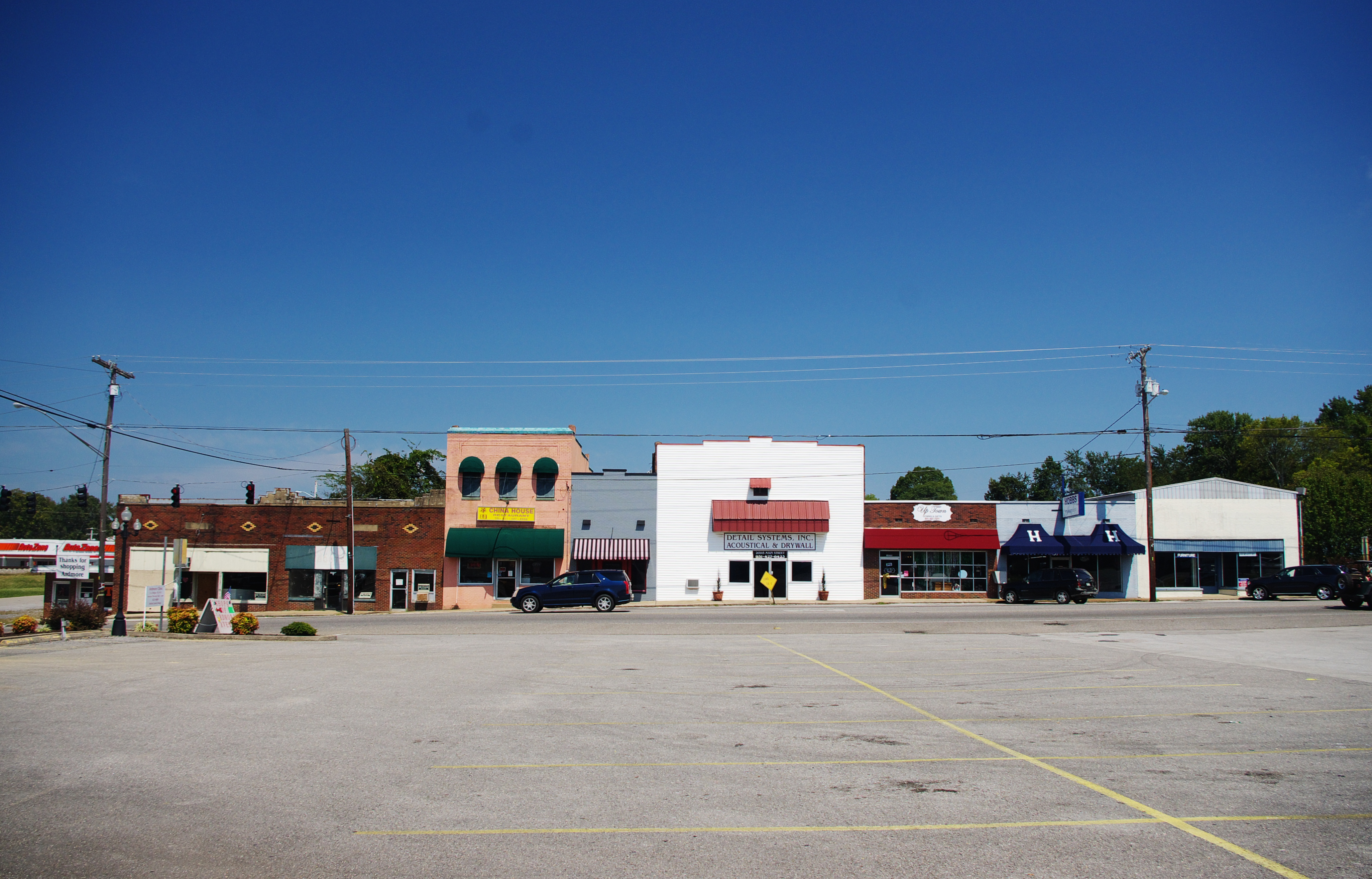 Businesses along Main Street (Tennessee State Route 7/Alabama State Route 53) in Ardmore, Tennessee, United States. The Tennessee-Alabama state line runs across the street from left to right, with these buildings located on the Tennessee side, and the parking lot in the foreground on the Alabama side.